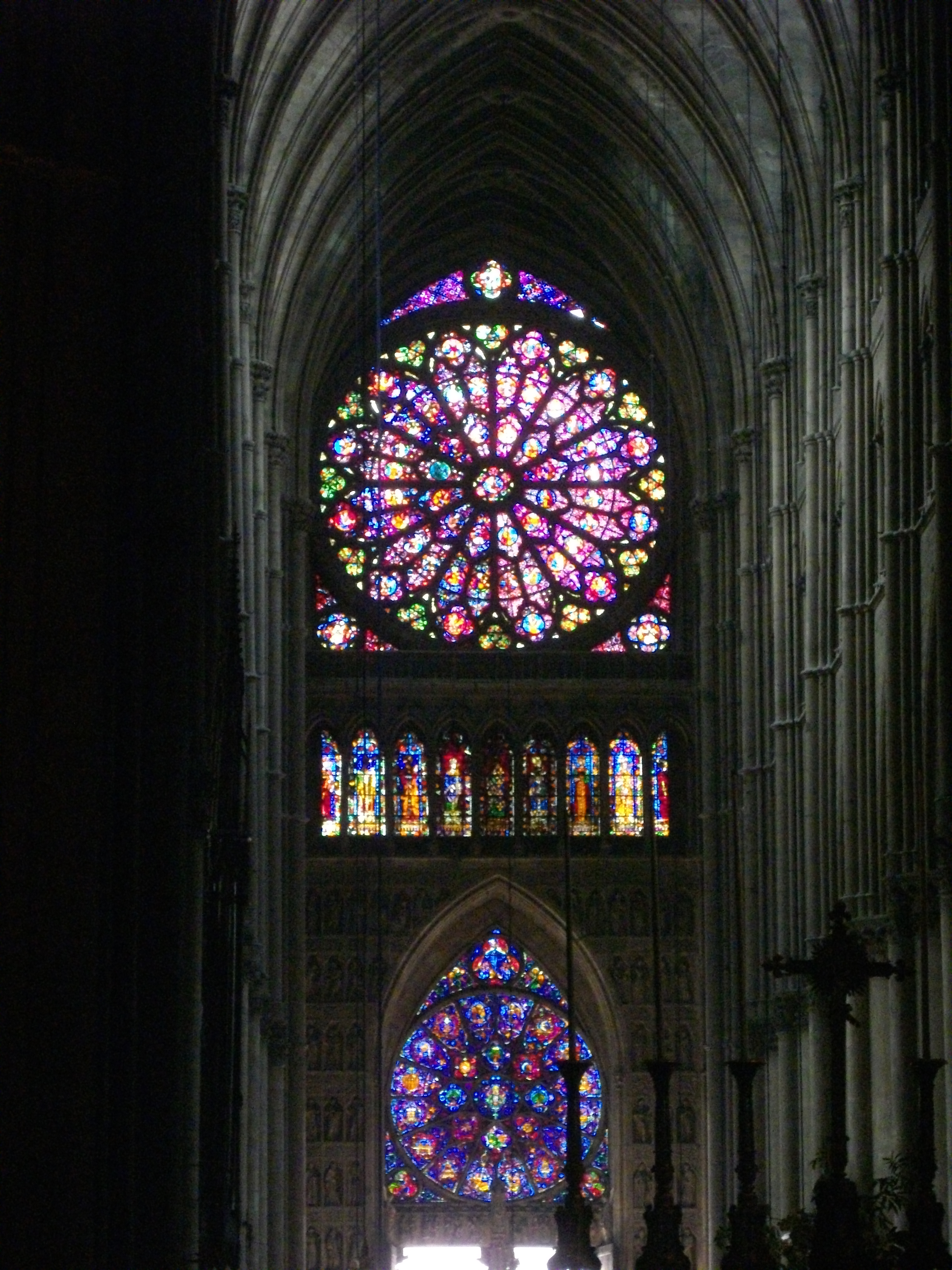 Interior of Our Lady cathedral of Reims (Marne, France), rose windows .